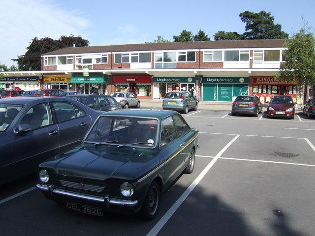 Parade of shops in Holmes Chapel Complete with a 1968/69 Hillman Imp Californian in the car park.